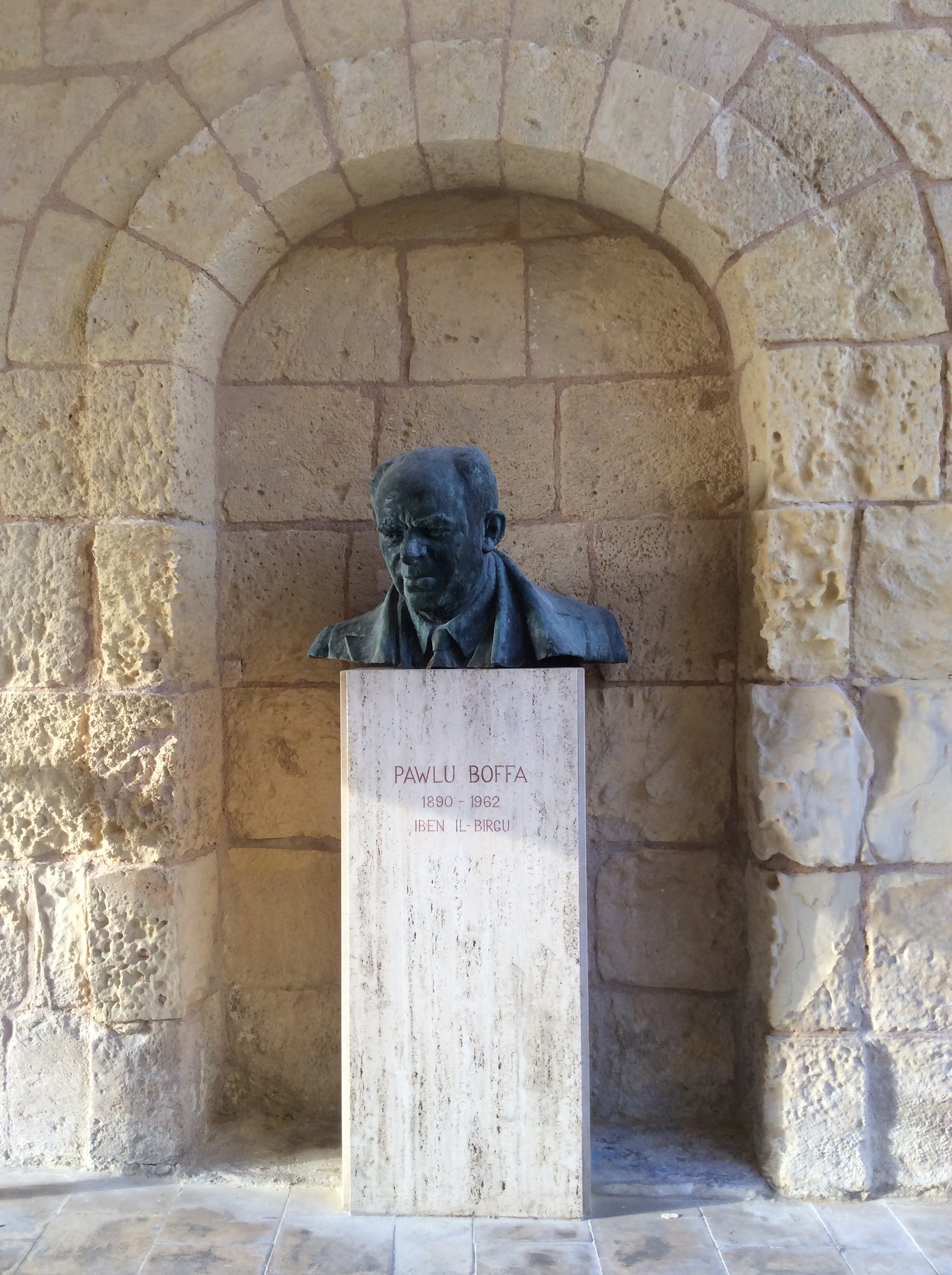 Bust of Pawlu Boffa at Couvre Porte Gate, Birgu